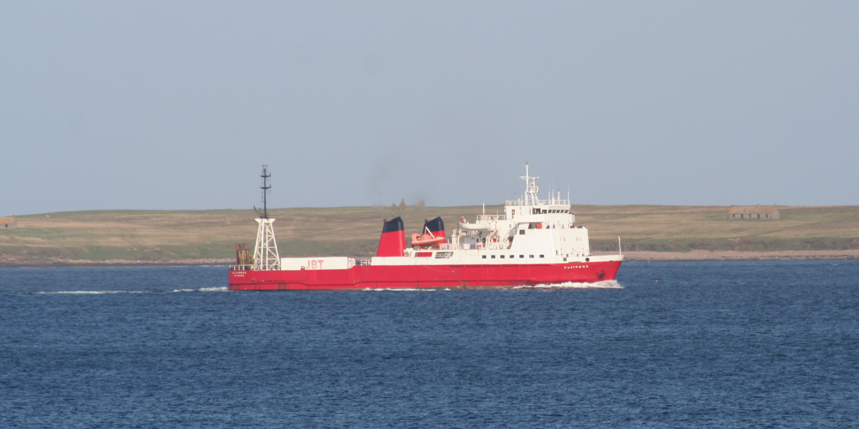 MV Claymore on its way from mainland Scotland to St Margaret's Hope on South Ronaldsay. The island in the background is Stroma, not one of the Orkney Islands but part of the County of Caithness.